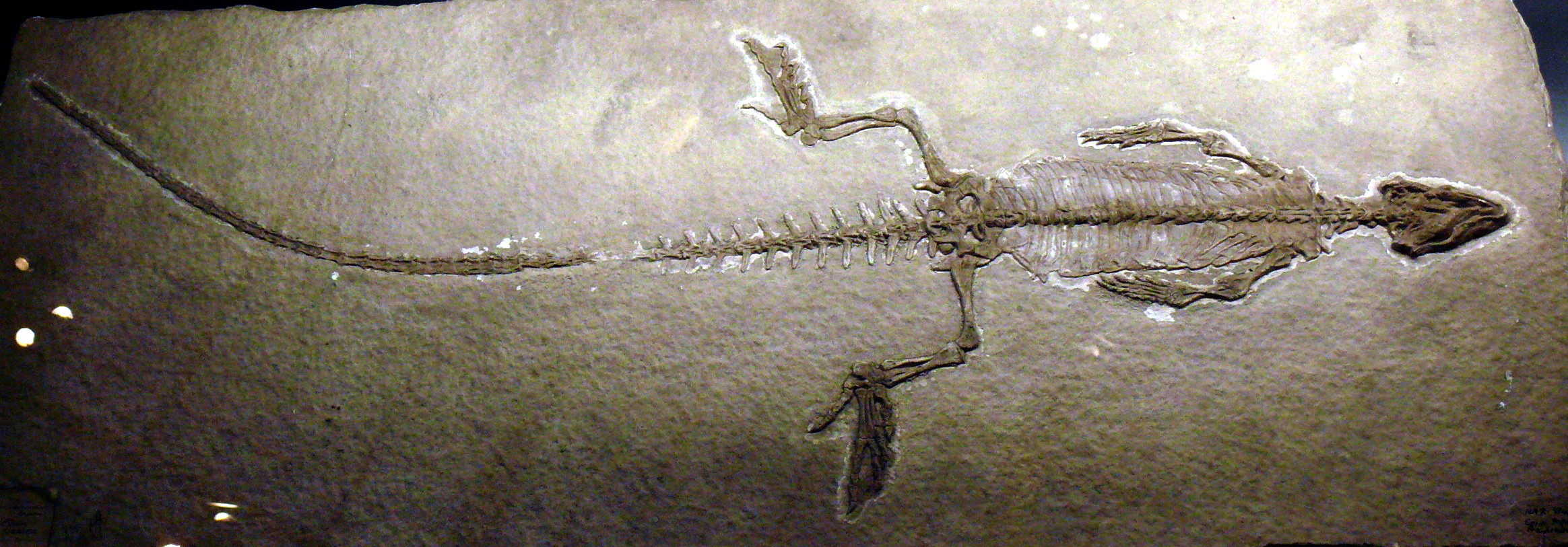 Sapheosaurus, a semi-aquatic? Sphenodont. Sorry to the poster of this image but it is not a pleurosaur - the skull of pleurosaurs are elongate in comparison to this specimen, which is probably a sapheosaur